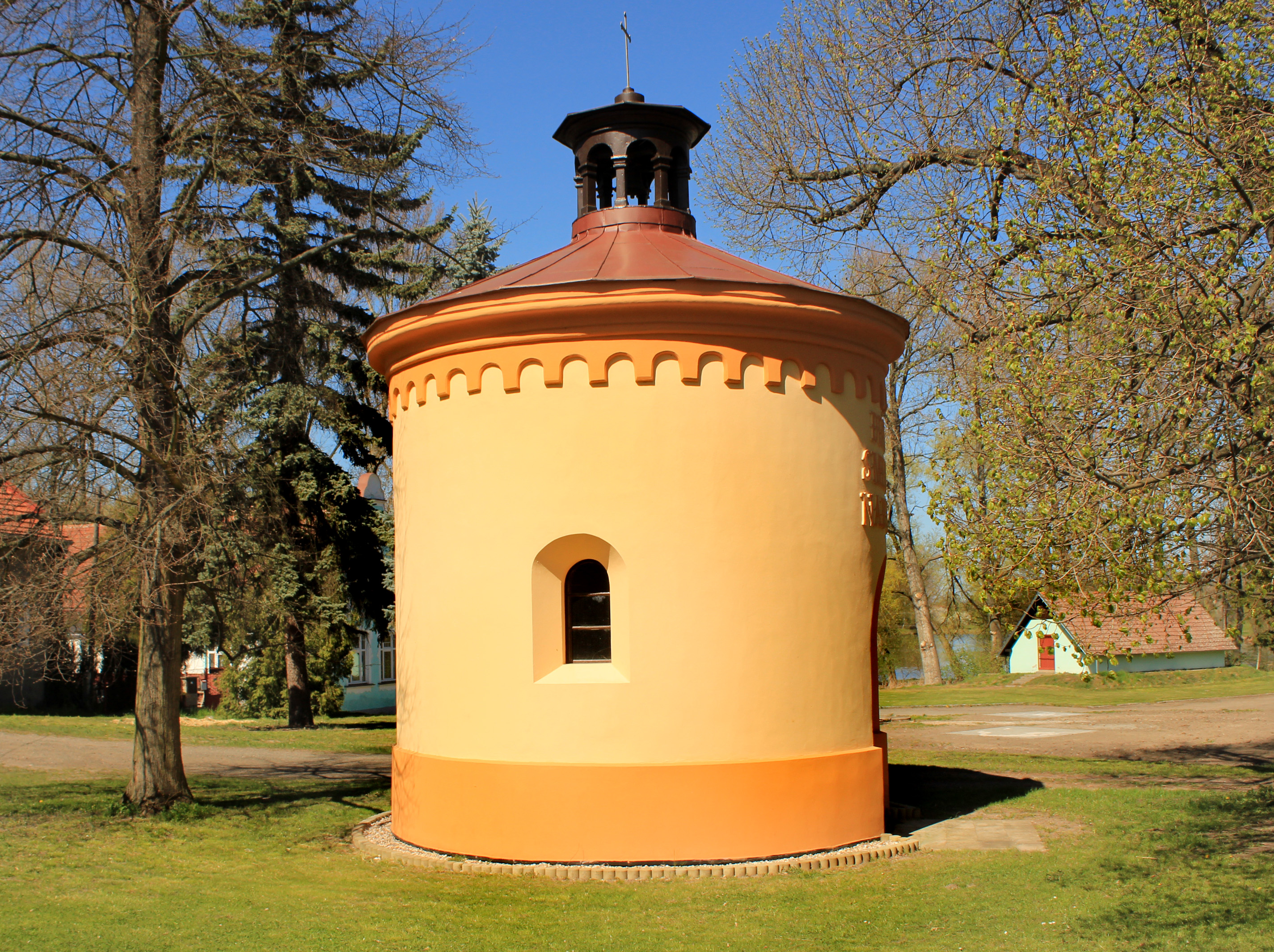 Chapel in Písty, Czech Republic.